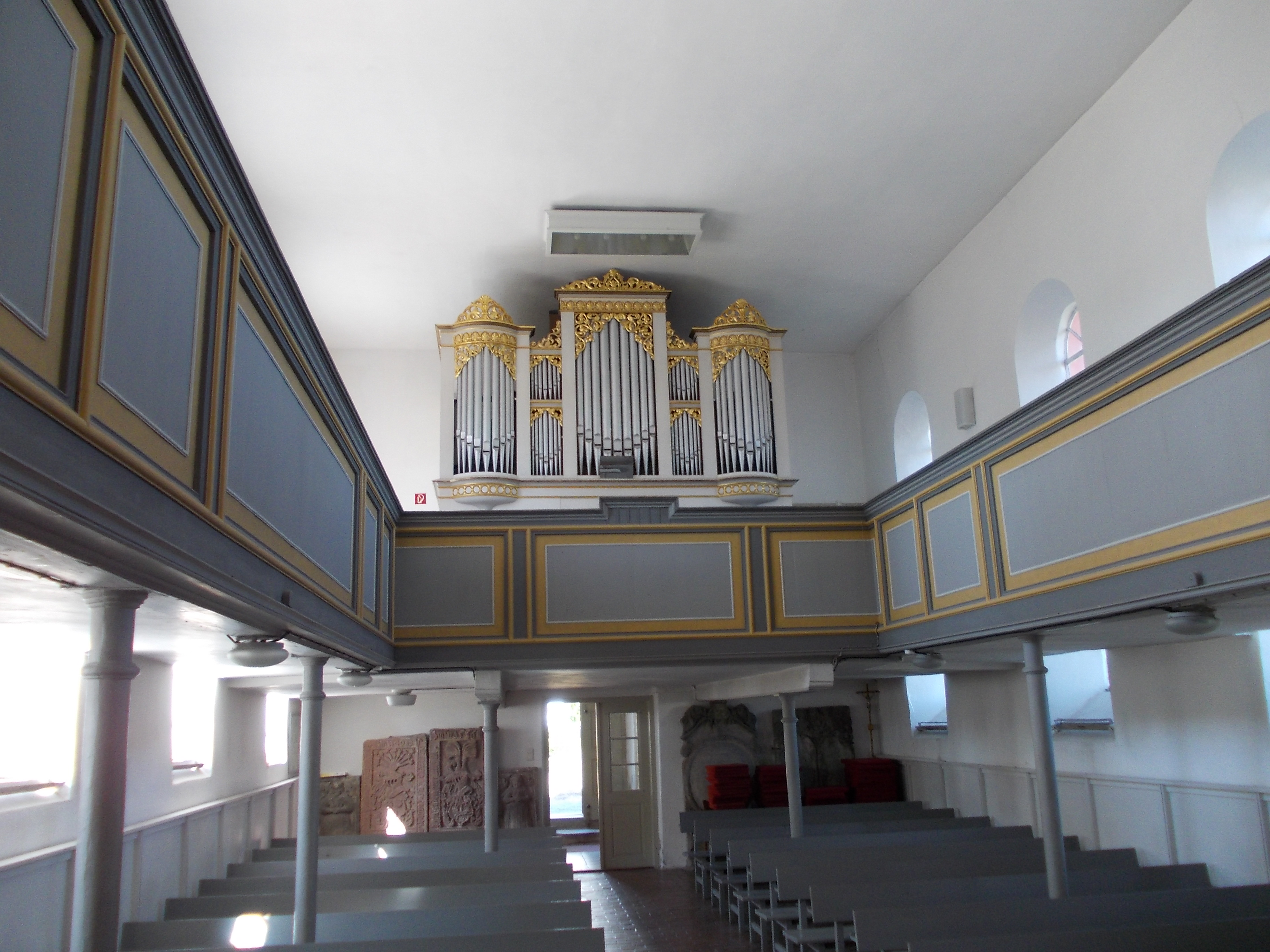 Interior of St. Nicholas Church in Machern (Leipzig district, Saxony) with organ